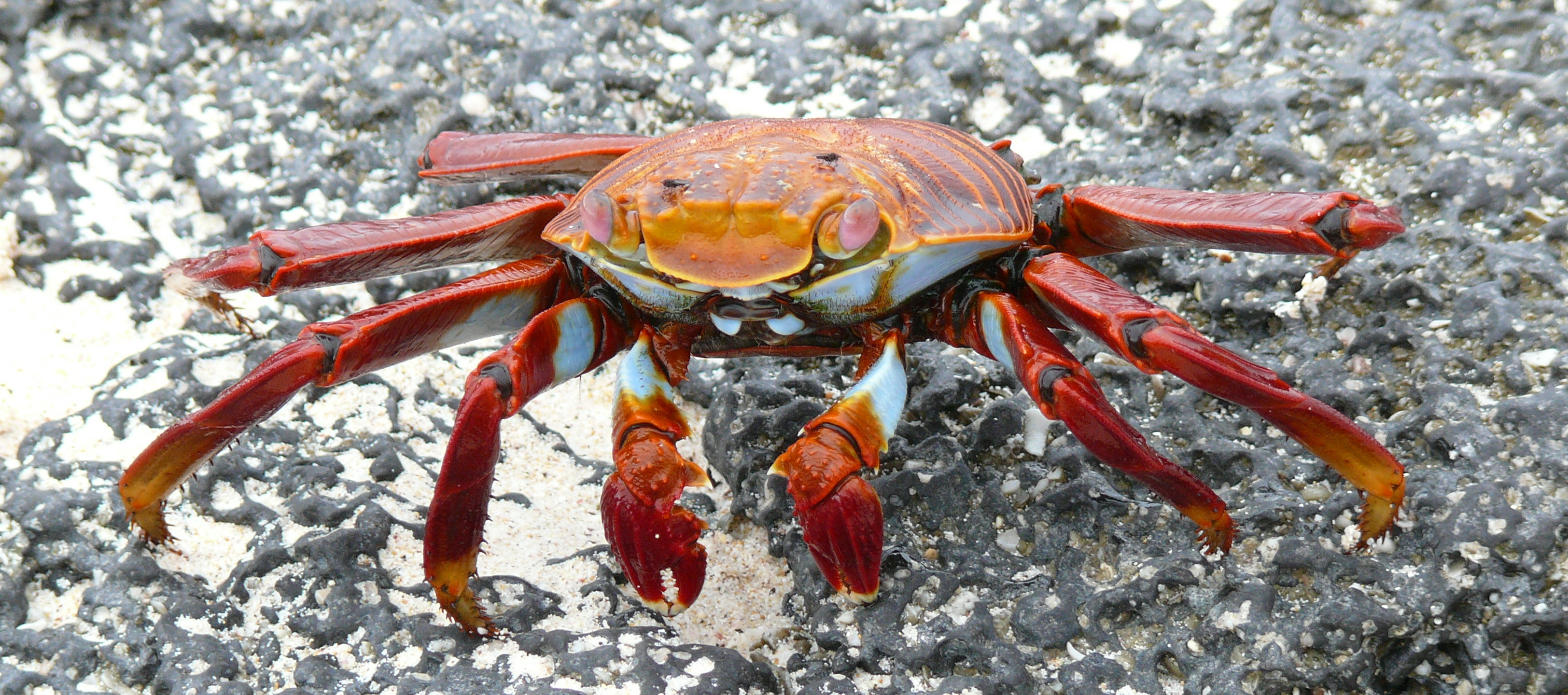 Sally Lightfoot crab (Grapsus grapsus)